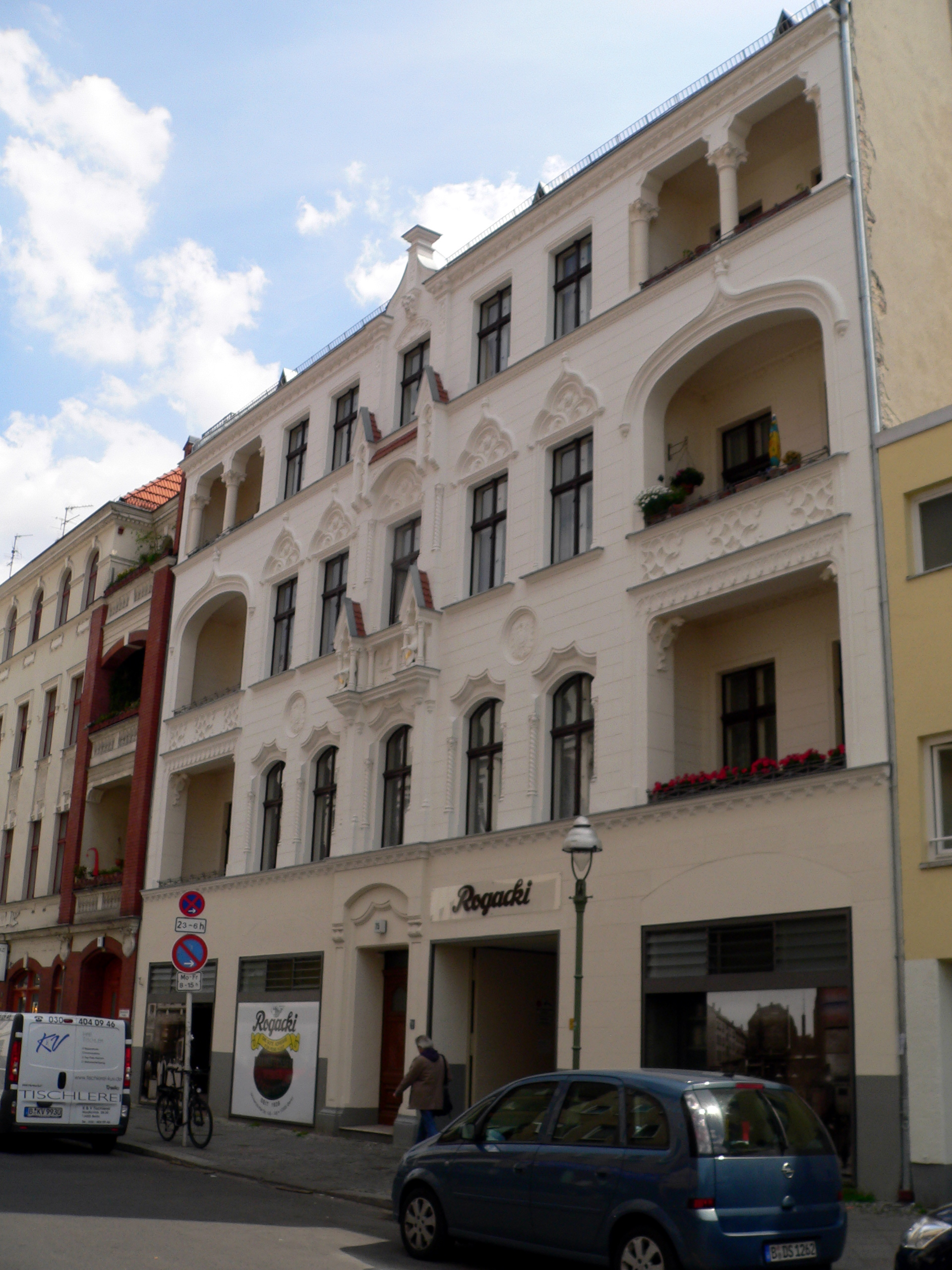 Berlin-Charlottenburg Zillestraße